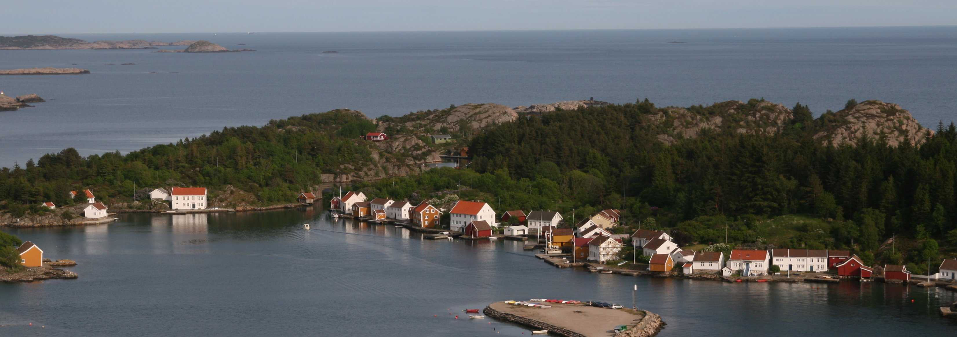 Svinør as seen from Havsyn.